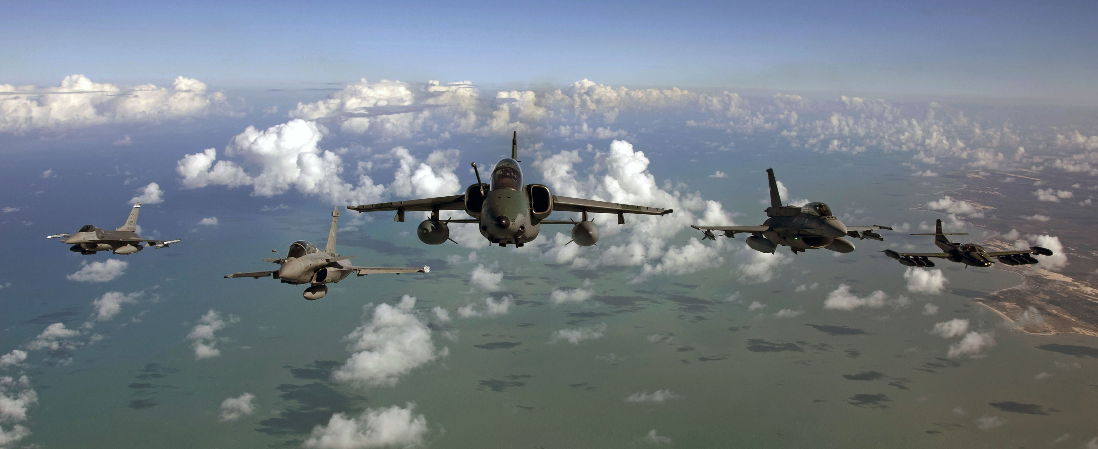 Various aircraft participate in the Cruzeiro Do Sul (Southern Cross) exercise Nov. 11, 2010, at Natal Air Base, Brazil. CRUZEX V is a multi-national, combined exercise involving the air forces of Brazil, Chile, Uruguay, Argentina and France. This was the first time the U.S. Air Force was invited to participate. (U.S. Air Force photo by Senior Master Sgt. John Rohrer)